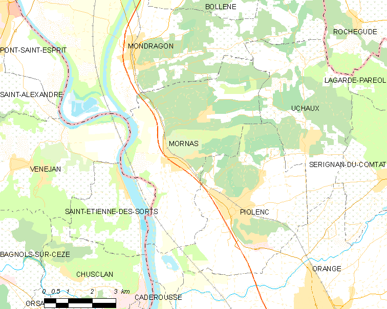 Map of French municipality Mornas